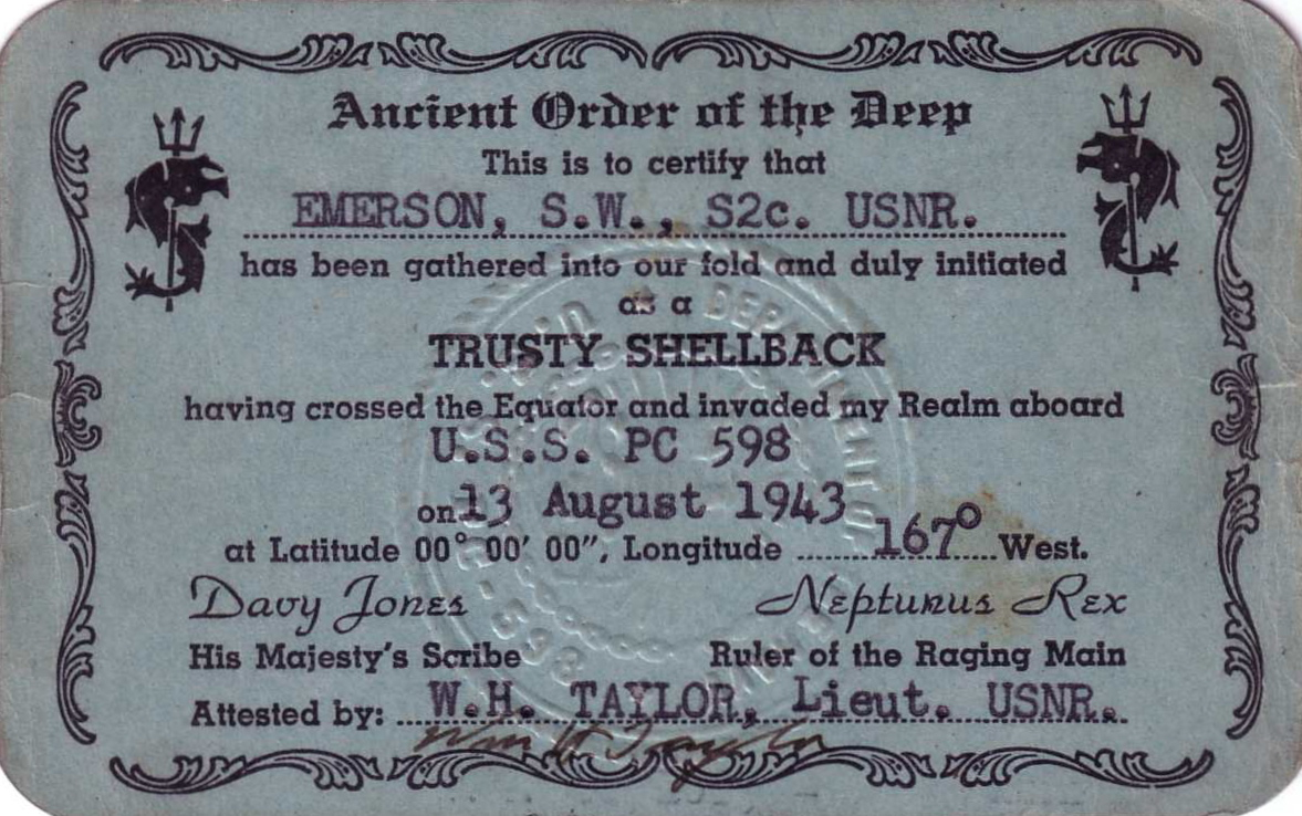 This is a scan of a card certifying that a crew member of USS PC-598 crossed the equator at 167° W on August 13, 1943 and become a Trusty Shellback.